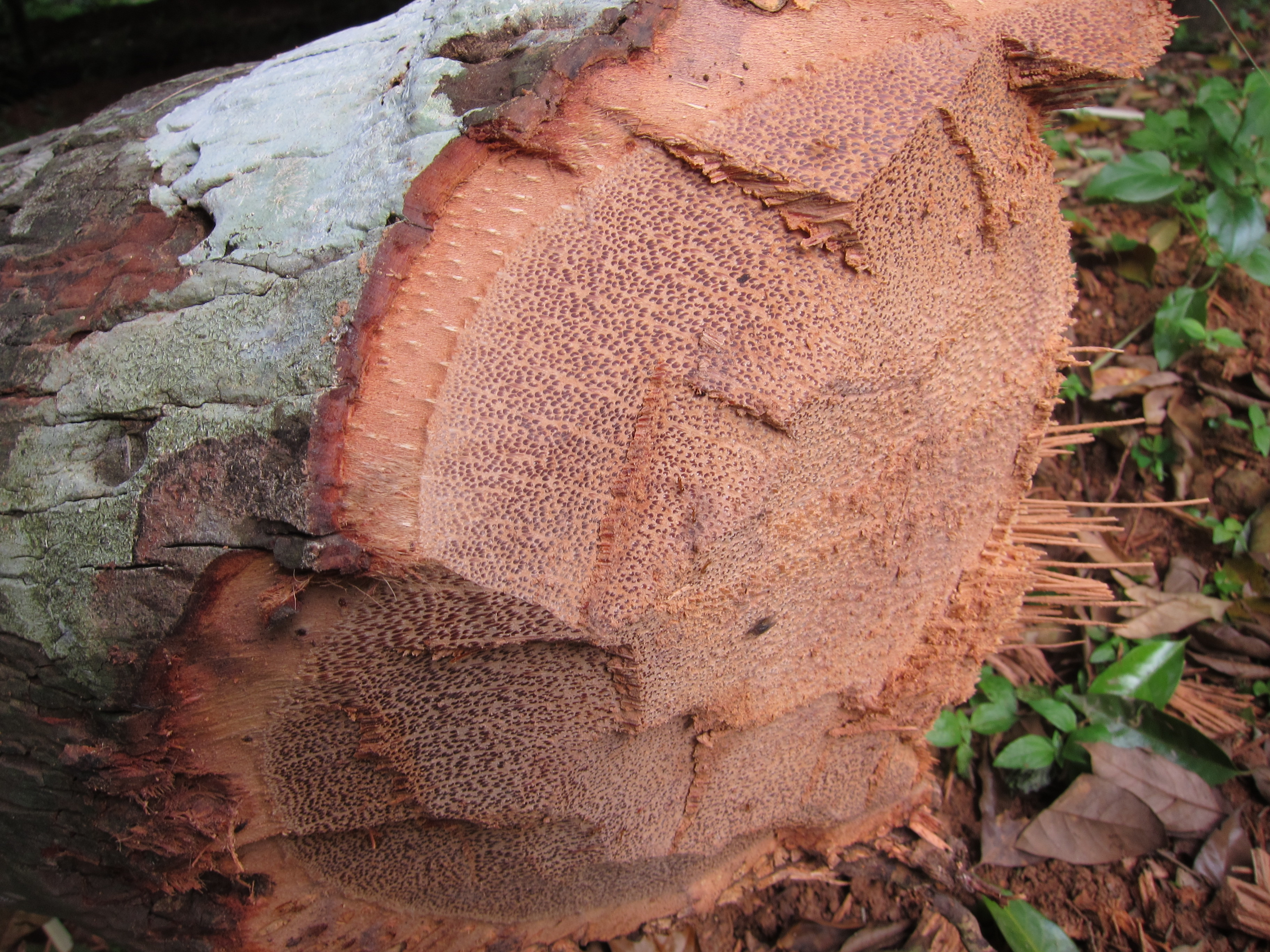 Coconut Tree - തെങ്ങ്, തേങ്ങ, നാളികേരം, മച്ചിങ്ങ, പൂക്കുല, വേര്